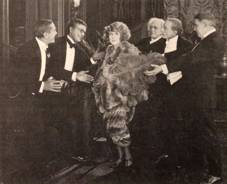 Still from the American comedy drama film Beyond Price (1921) with Pearl White, the actors are not identified, on page 62 of the May 7, 1921 Exhibitors Herald.